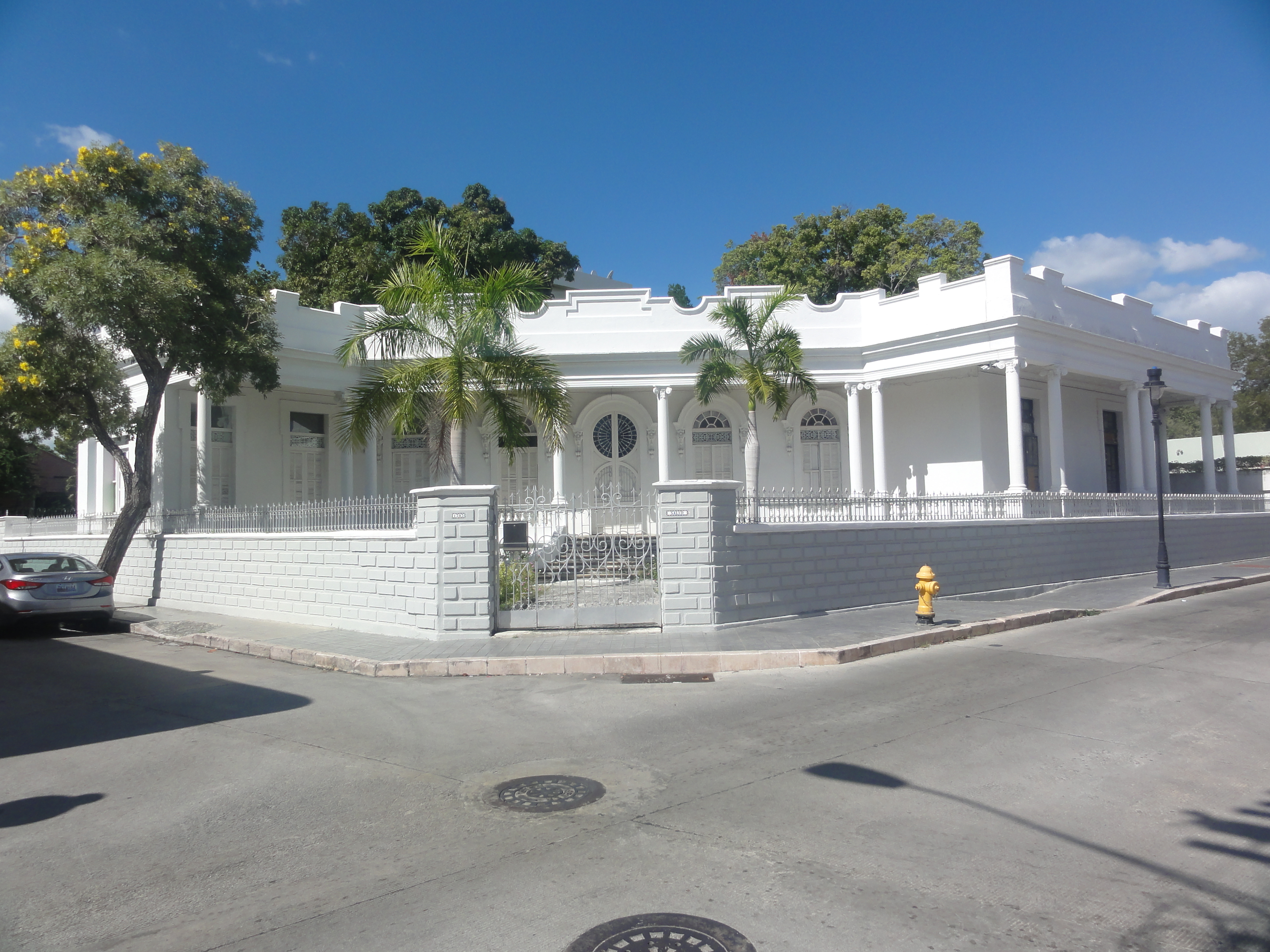 Casa Oppenheimer (en 2014), mirando hacia el noroeste, Barrio Tercero, Ponce, PR (DSC07149)